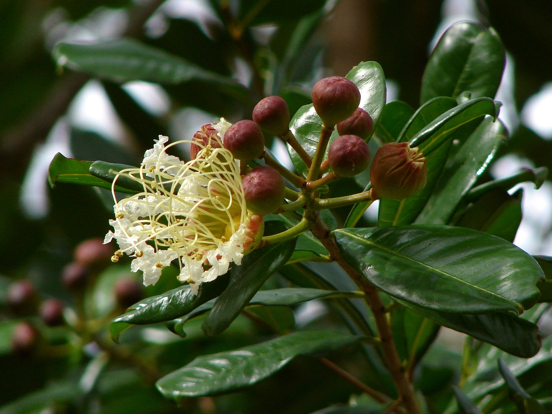 I think it is Lafoensia pacari. Notice: the leaves tips are mucronate ( tipped with a short point), and the point is bent down. Similar Lafoensia glyptocarpa has acuminate (pointed ) leaf tip. Flowers of these two Lafoensia species are very similar. Anyright, it's my observation... I might be wrong. Origin: Brazil and Paraguay. Location: Toowong park near Mt. Coot-tha botanic garden Brisbane, Australia. Tree relative to Lagerstroemia (Crape myrtle) . See where this picture was taken. [?]